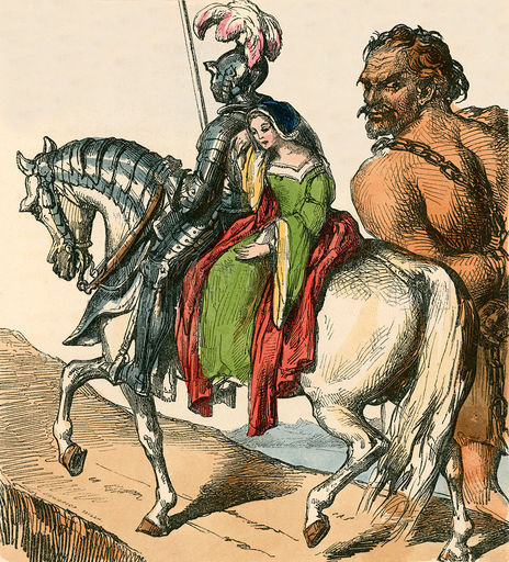 Sir Bevis and Josyan leading Ascapart. Illustration for The Home Treasury of Old Story Books (Sampson Low, 1859).